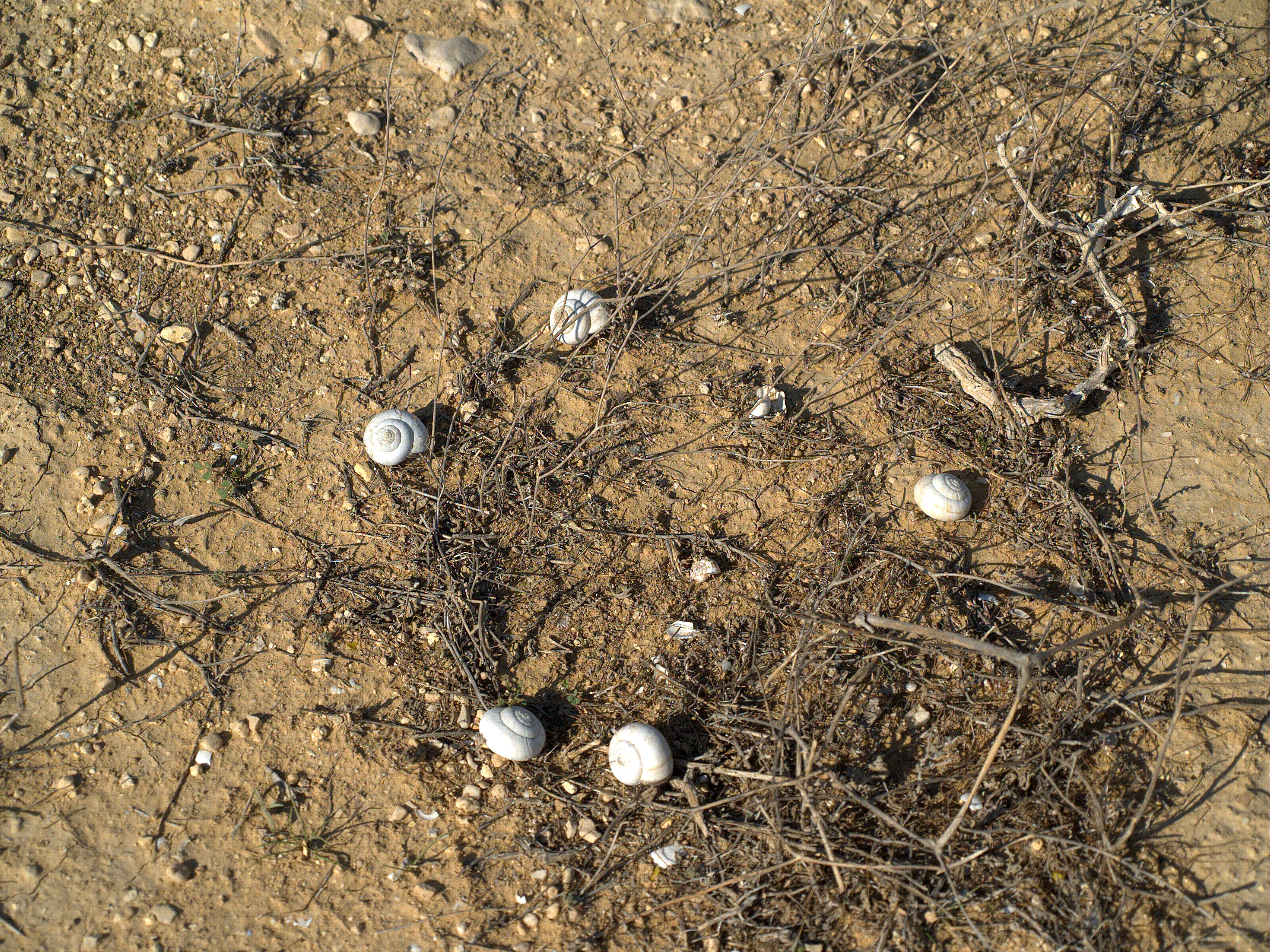 Land snail shells on the ground of the Negev desert in Israel Determination: It could be Theba pisana or some Monacha sp., see List of non-marine molluscs of Israel. --Snek01 (talk) 19:11, 16 April 2009 (UTC)